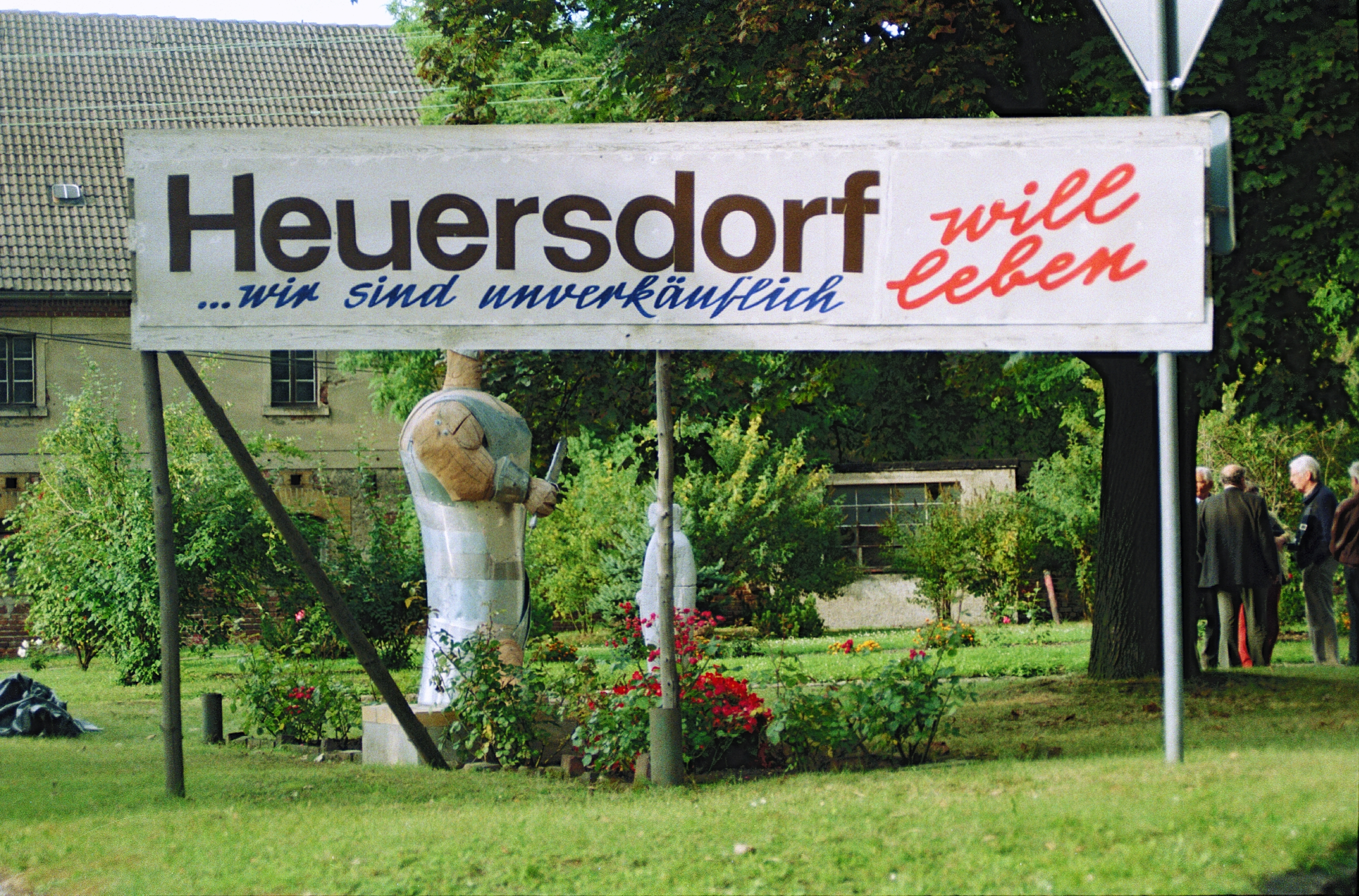 Sculpture and sign of the fight against devastation - September 1996